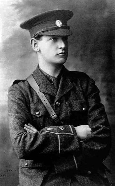 Young Michael Collins portrait.